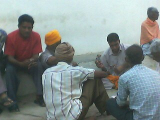 sath vich bethe babe